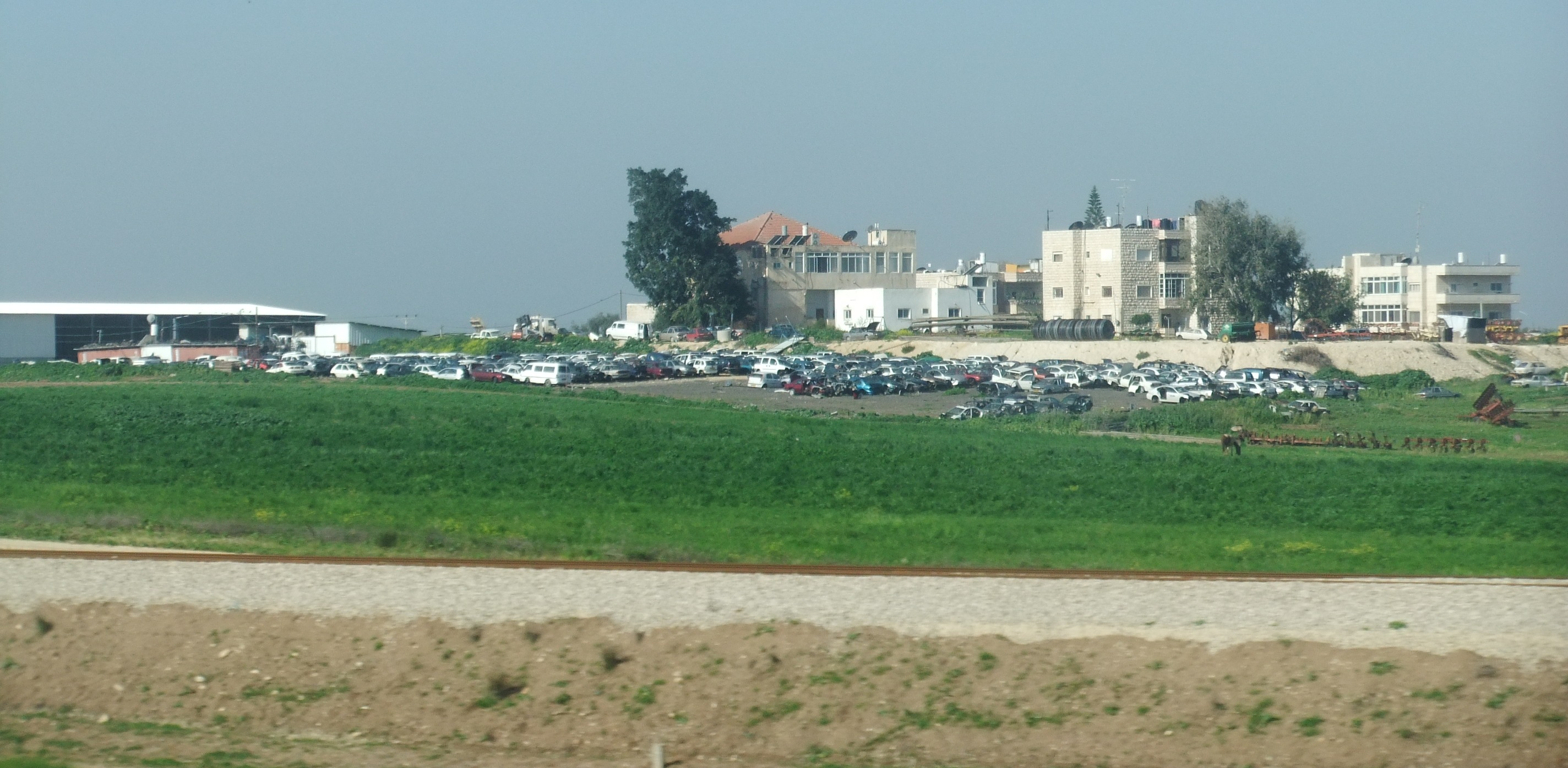 Al-'Azi from route 6